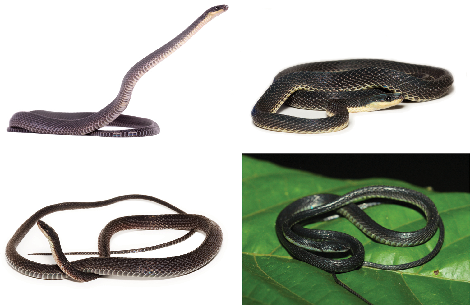 Four species of Synophis from Ecuador and Peru: S. calamitus (QCAZ 11931, upper left); S. bogerti sp. n. (QCAZ 13586, upper right); S. zamora sp. n. (QCAZ 13854, lower left); S. insulomontanus sp. n. (CORBIDI 13940, lower right).